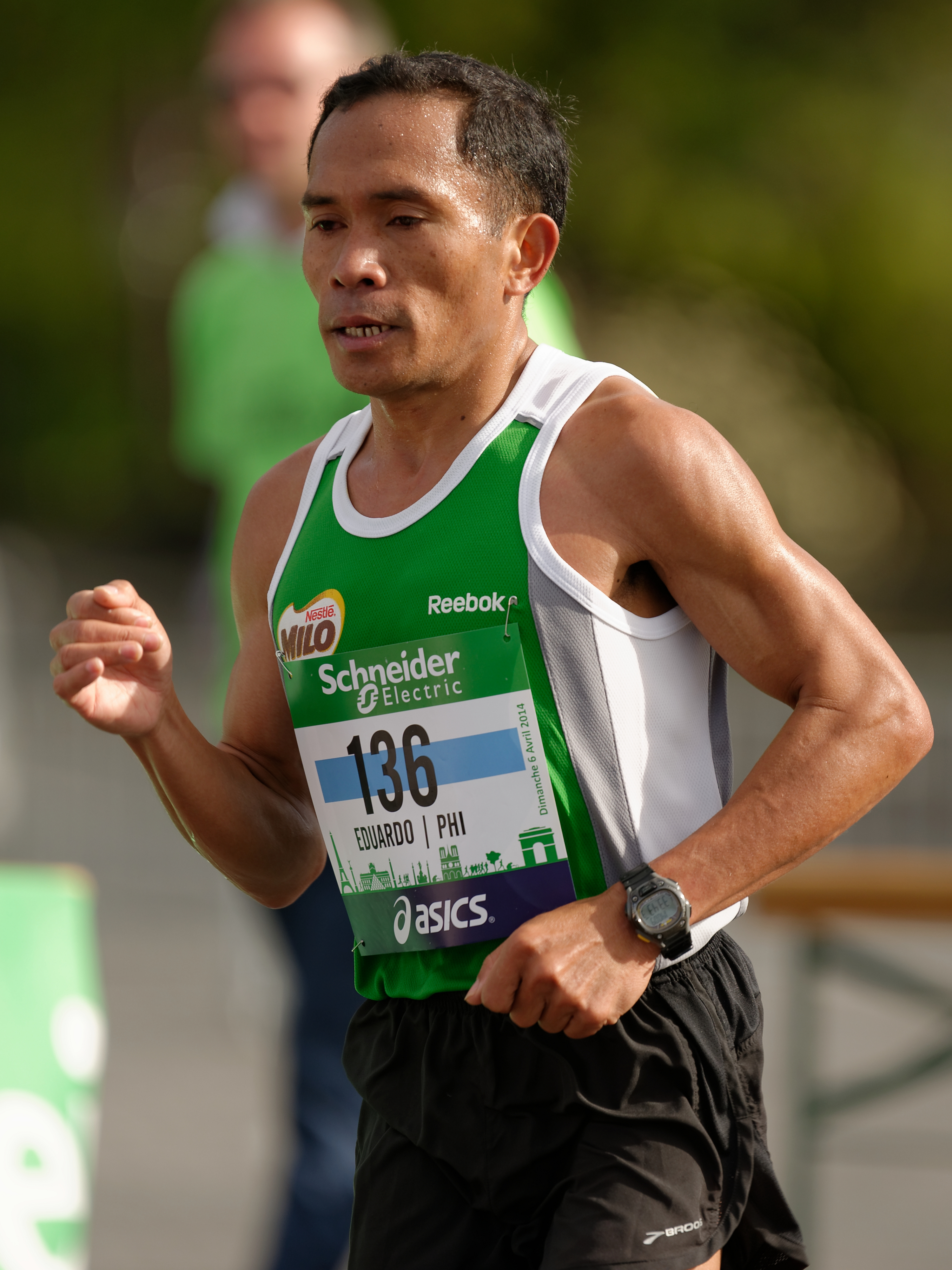 Philippines' Eduardo Buenavista approaches the Trocadéro refreshment tables in the 2014 Paris Marathon.